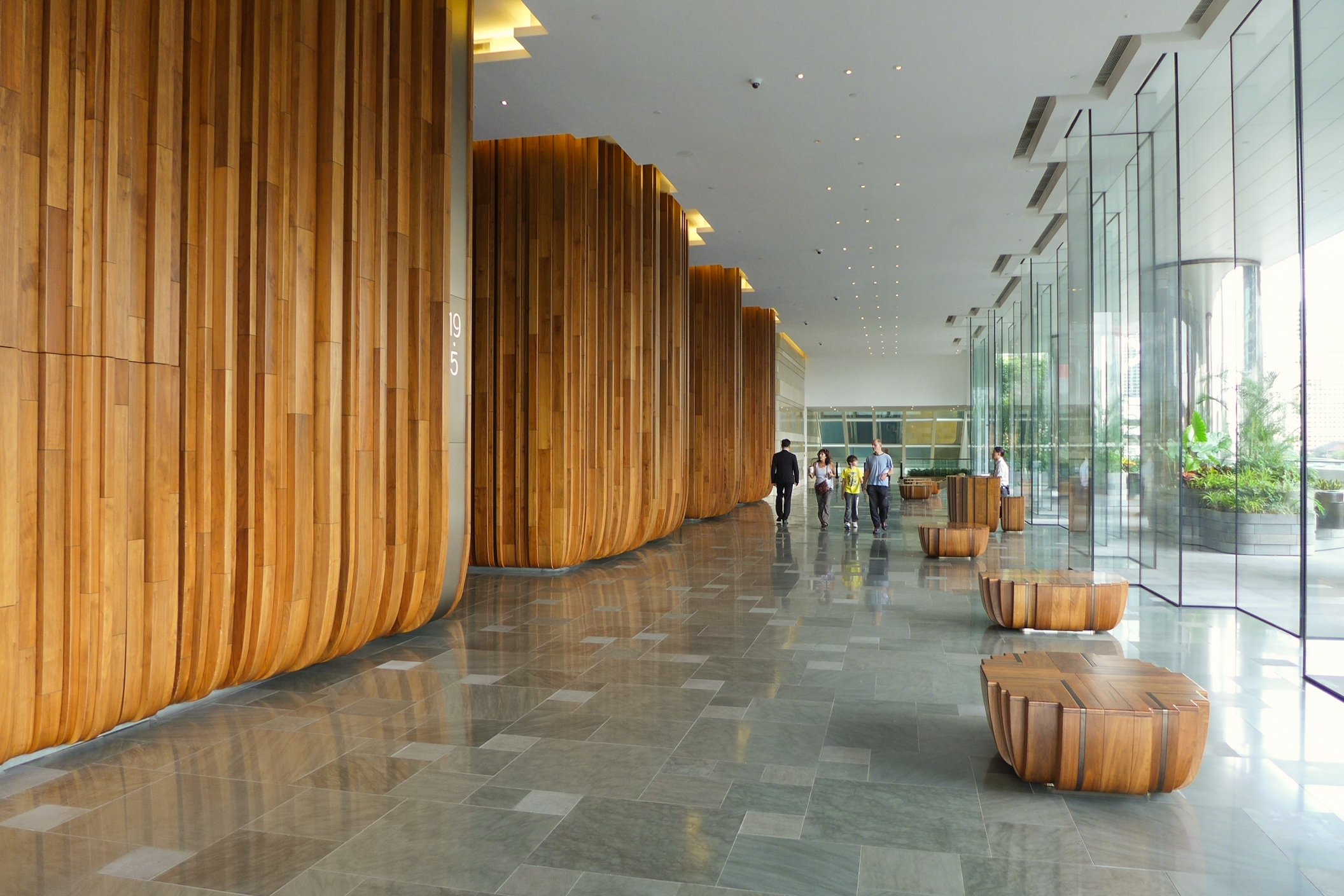 Pacific Place Tower 1 Office Lobby